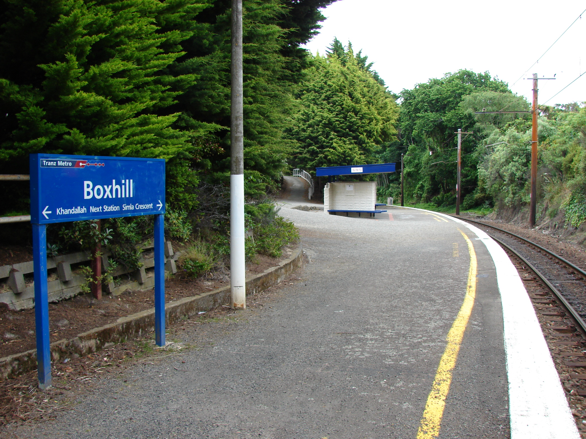 Box Hill railway station, looking south. Photographed by Matthew25187 on 2007-12-17.